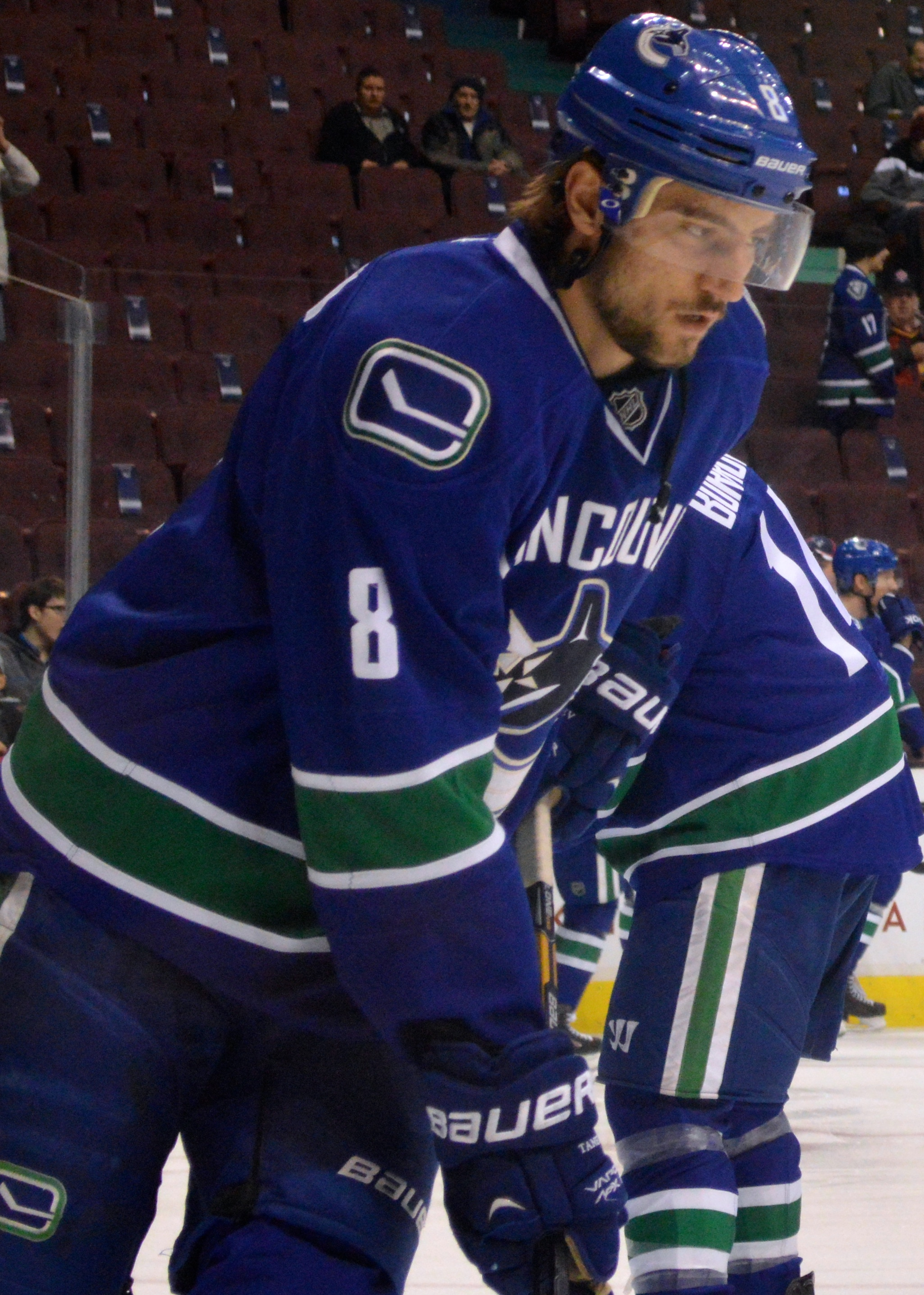 Vancouver Canucks defenceman Chris Tanev during warm-up prior to a game against the Winnipeg Jets at Rogers Arena on February 3, 2015.